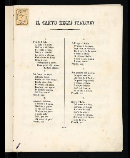 Poem of "Canto degli italiani" - words